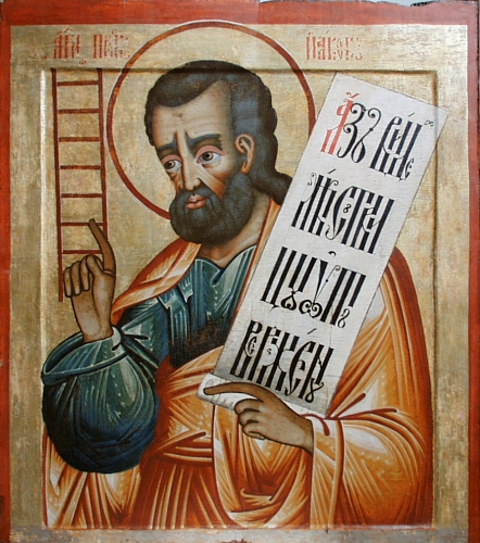 Jacob (Israel), Russian icon from first quarter of 18th cen.